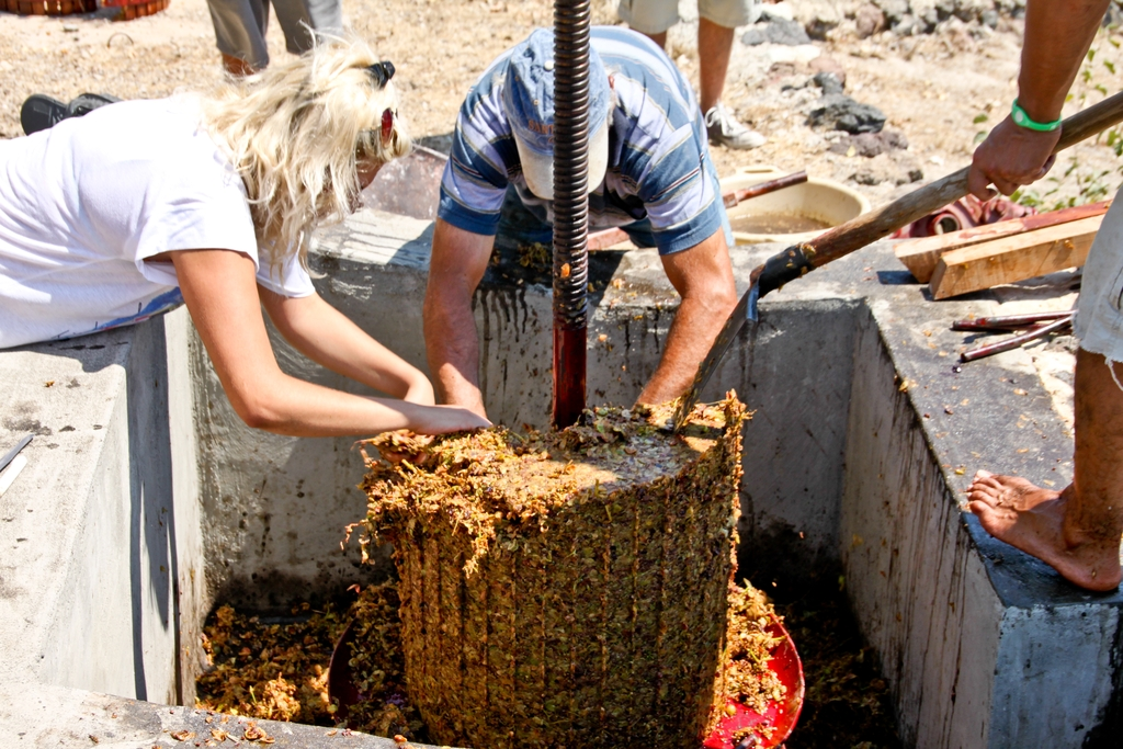 After the barrel staves have been removed from the basket press, what is left is the pomace "cake" (here practically taking the shape of the basket press). The cake is then removed, the barrel replaced and new grapes are added to be pressed.